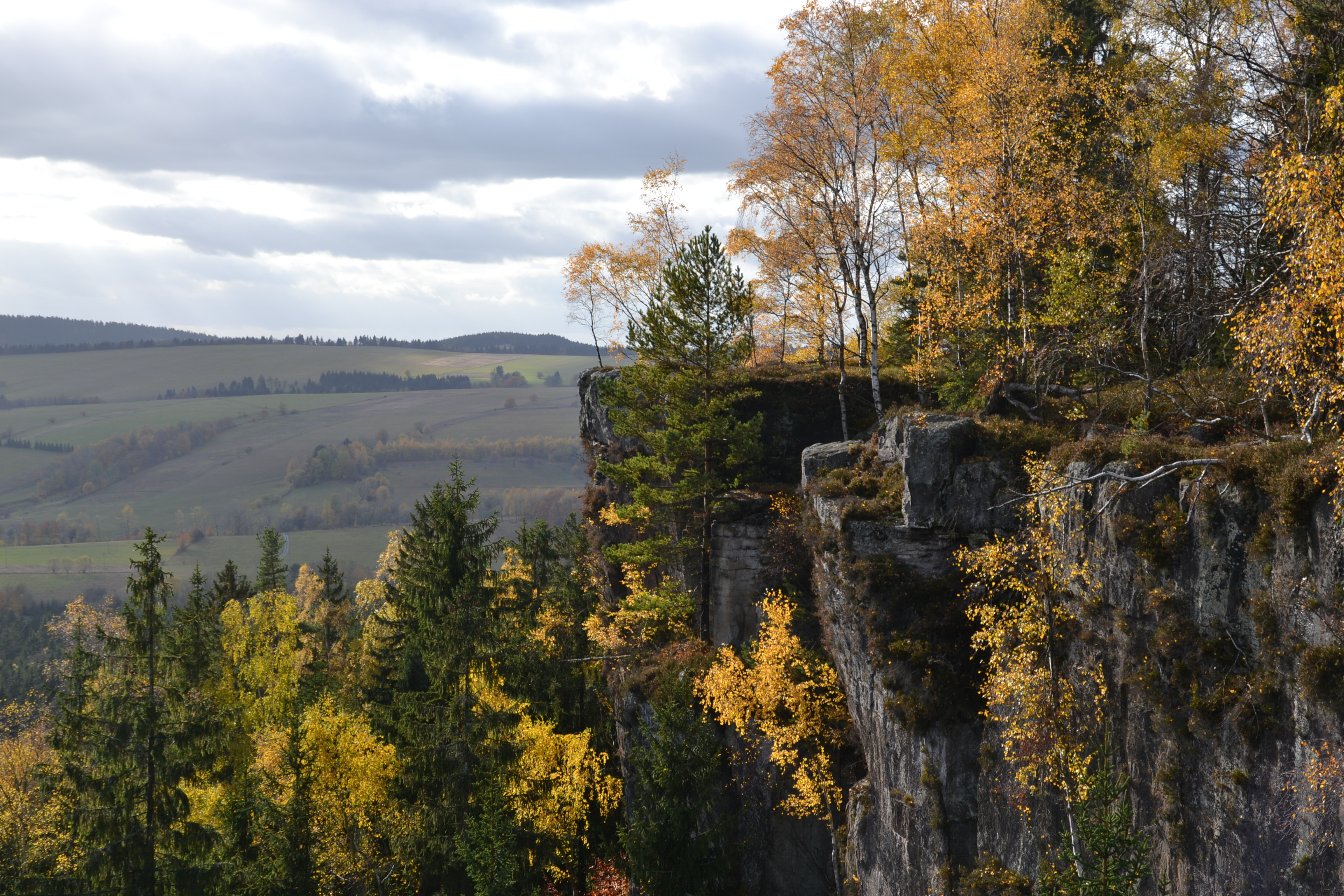 Stołowe Mountains, Poland - Skały Puchacza (Uhustein)